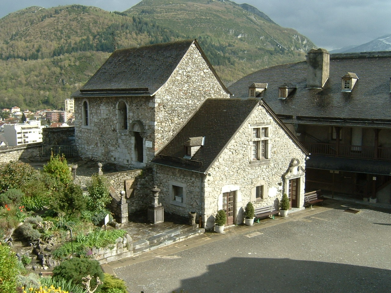 Lourdes : castle, Our Lady chapel.